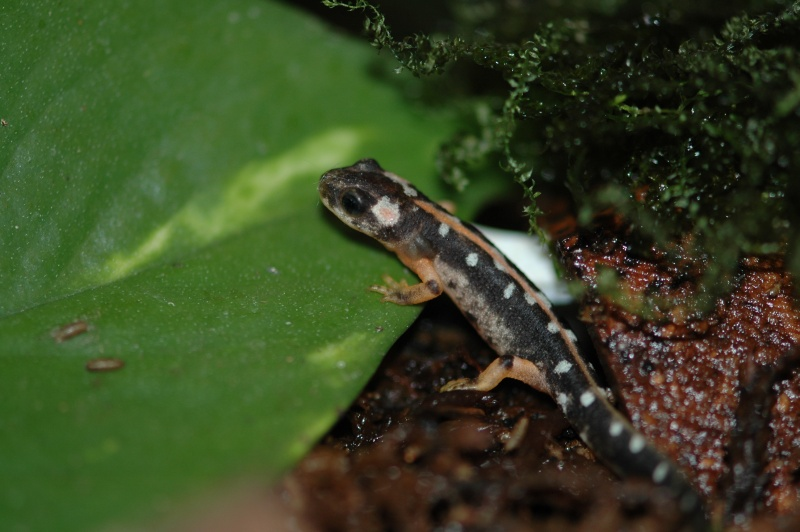 Neurergus kaiseri juvenile just after exondation. Picture taken in captivity, in France.